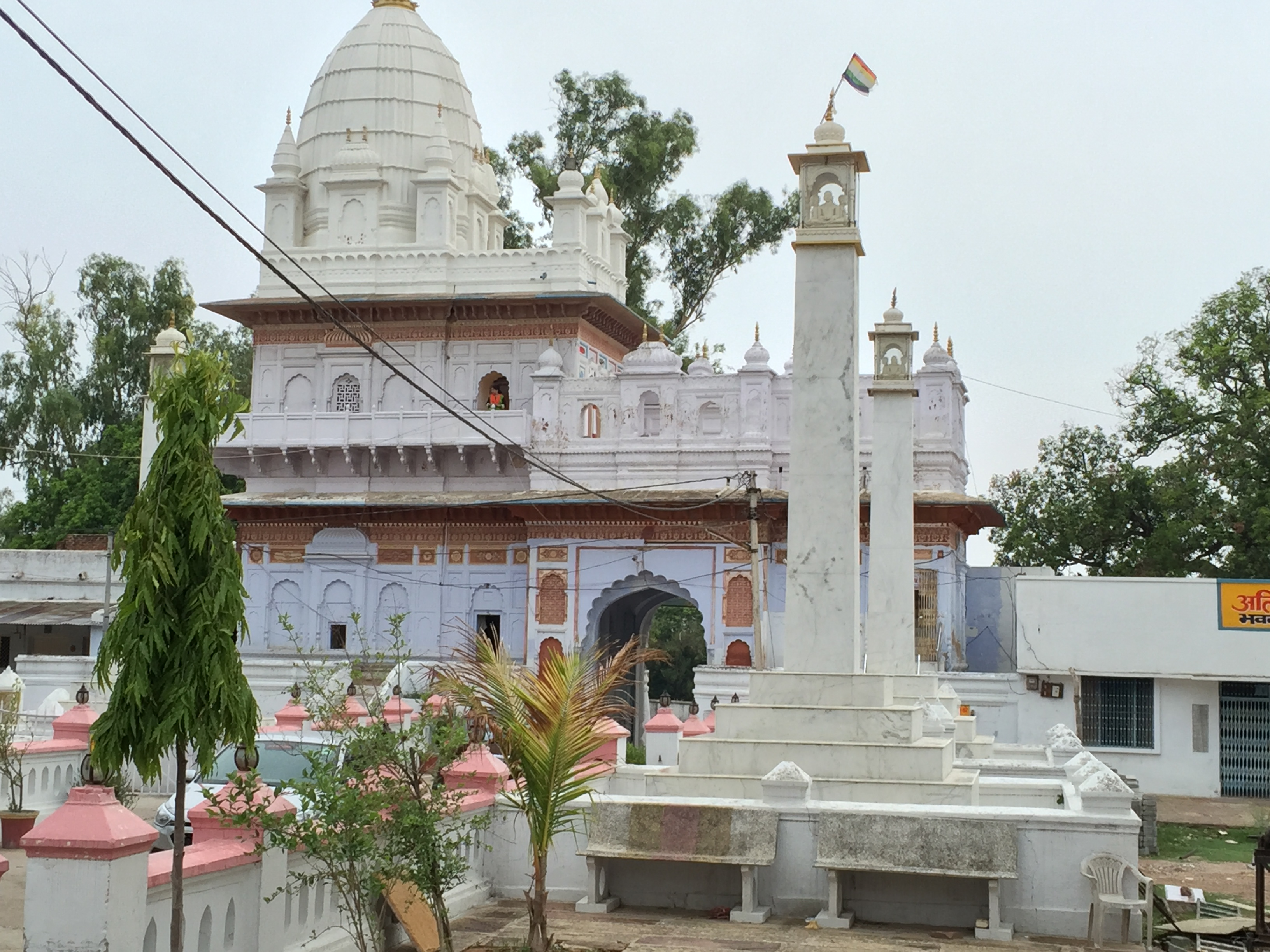 Papauraji Entrance Temple